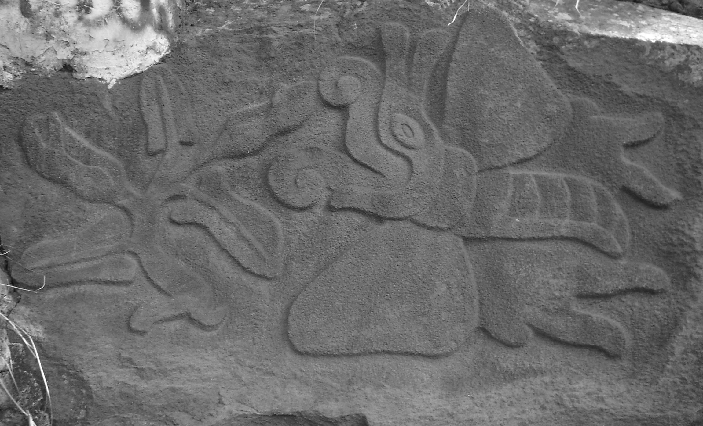 Cuahilama petroglyph5